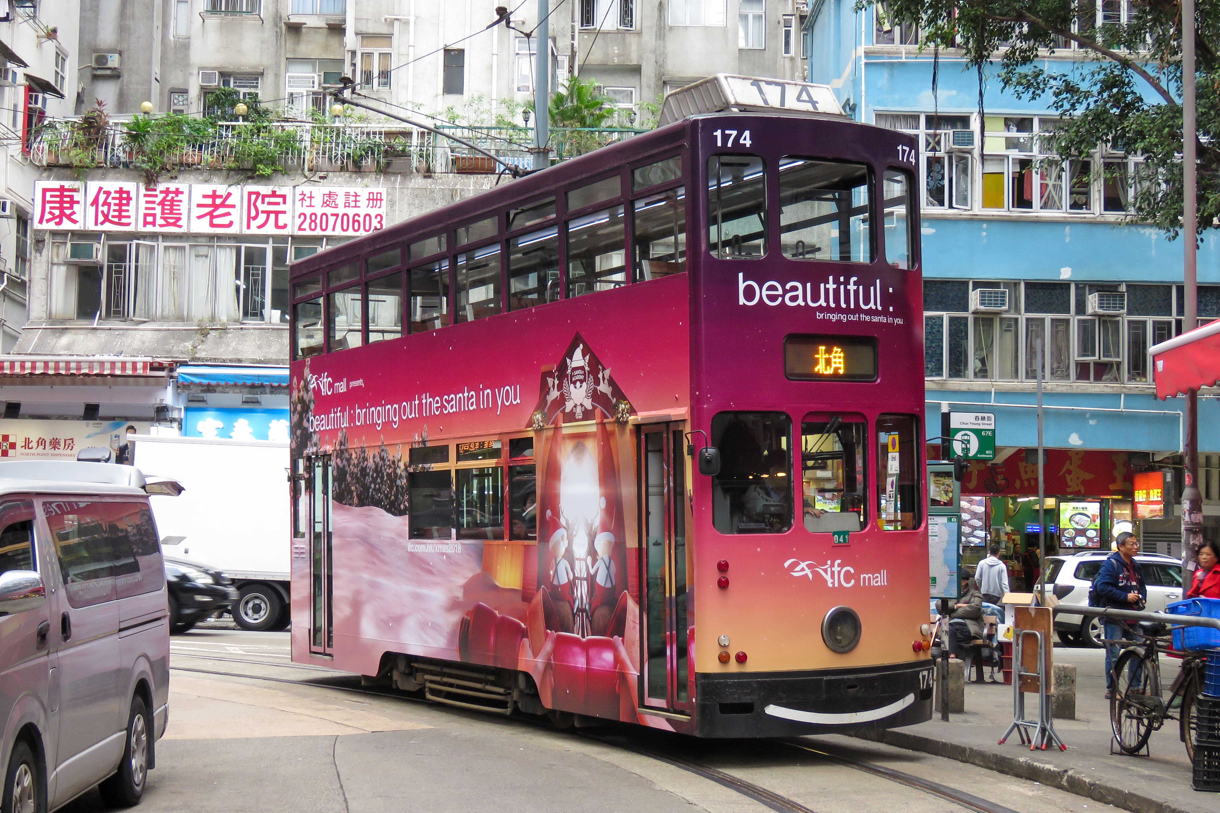 Bringing the Santa to Chun Yeung Street market.